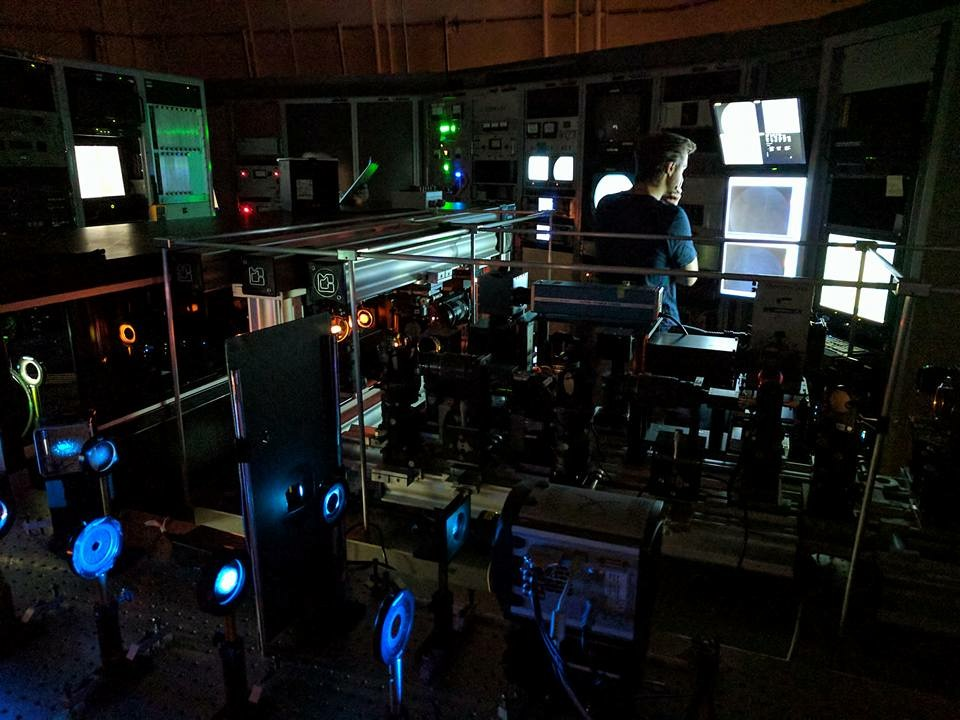 DST instruments